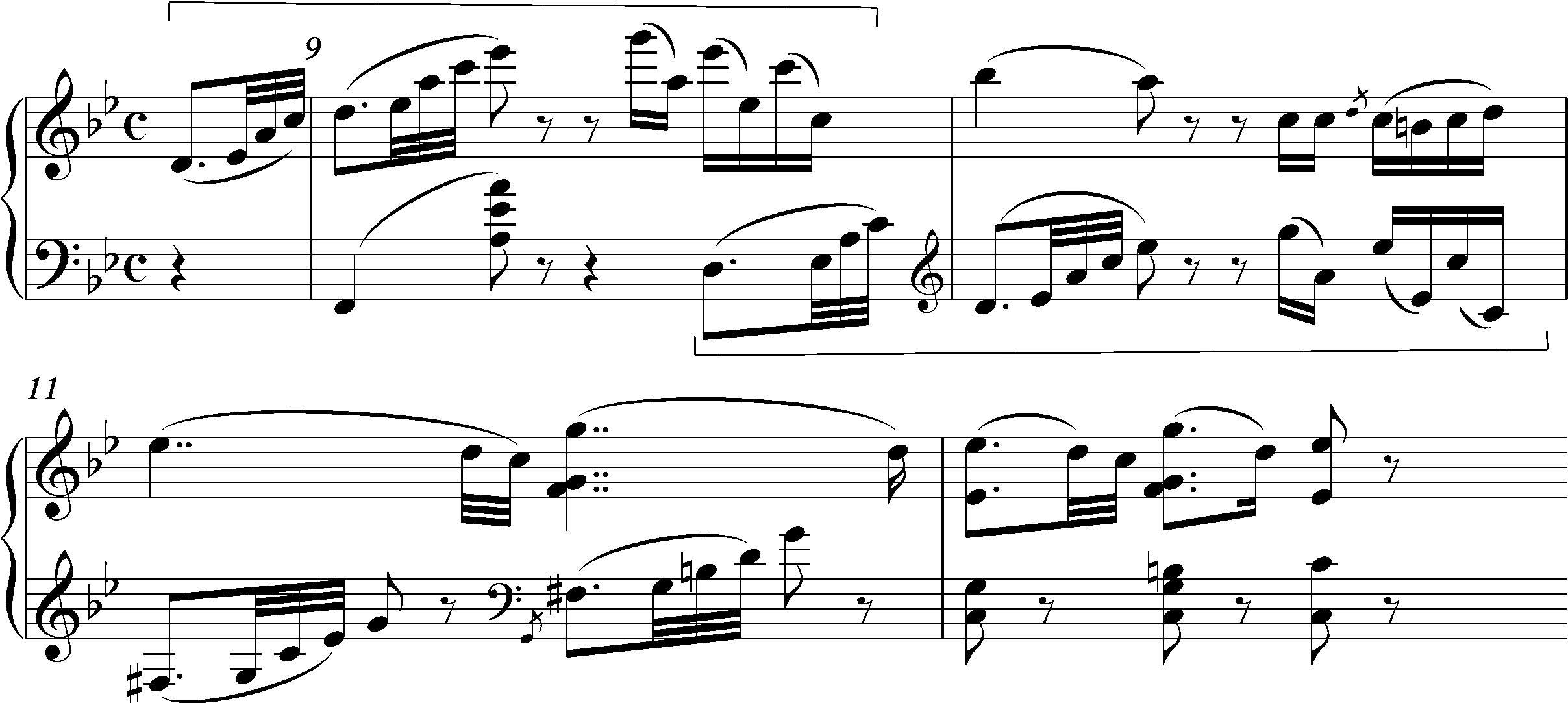 Schumann Vogel als Prophete